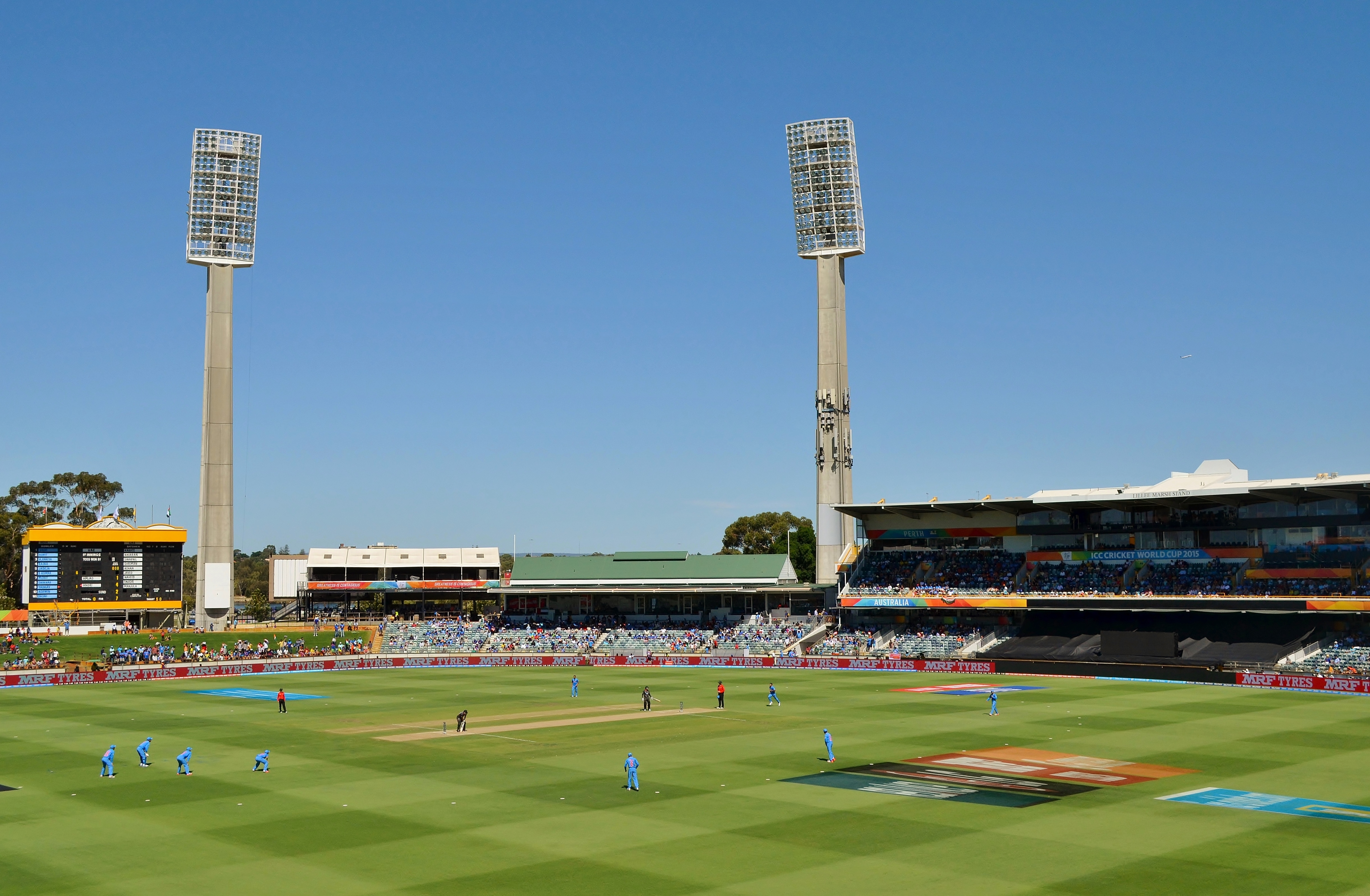 View of the WACA Ground as the United Arab Emirates team bats against India during their 2015 Cricket World Cup match.